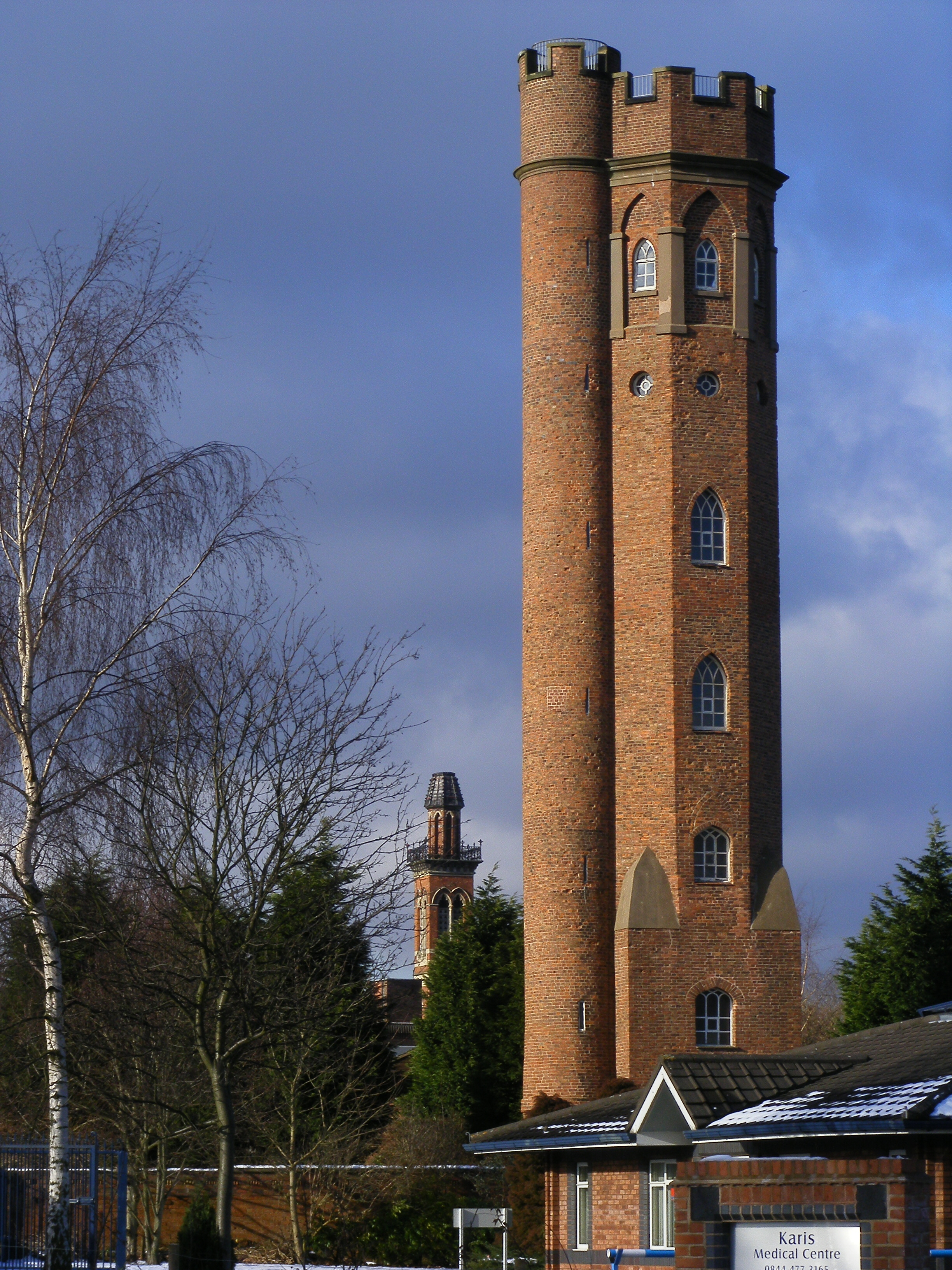 The Twin Towers, of Perrott's Folly, and the Victorian tower of the waterworks, stand alongside Edgbaston Reservoir. Close to Birmingham Oratory, where young J. R. R. Tolkien was sent to be taught Catholicism, these towers are thought to be the model for the towers of Mordor in "The Lord of the Rings".